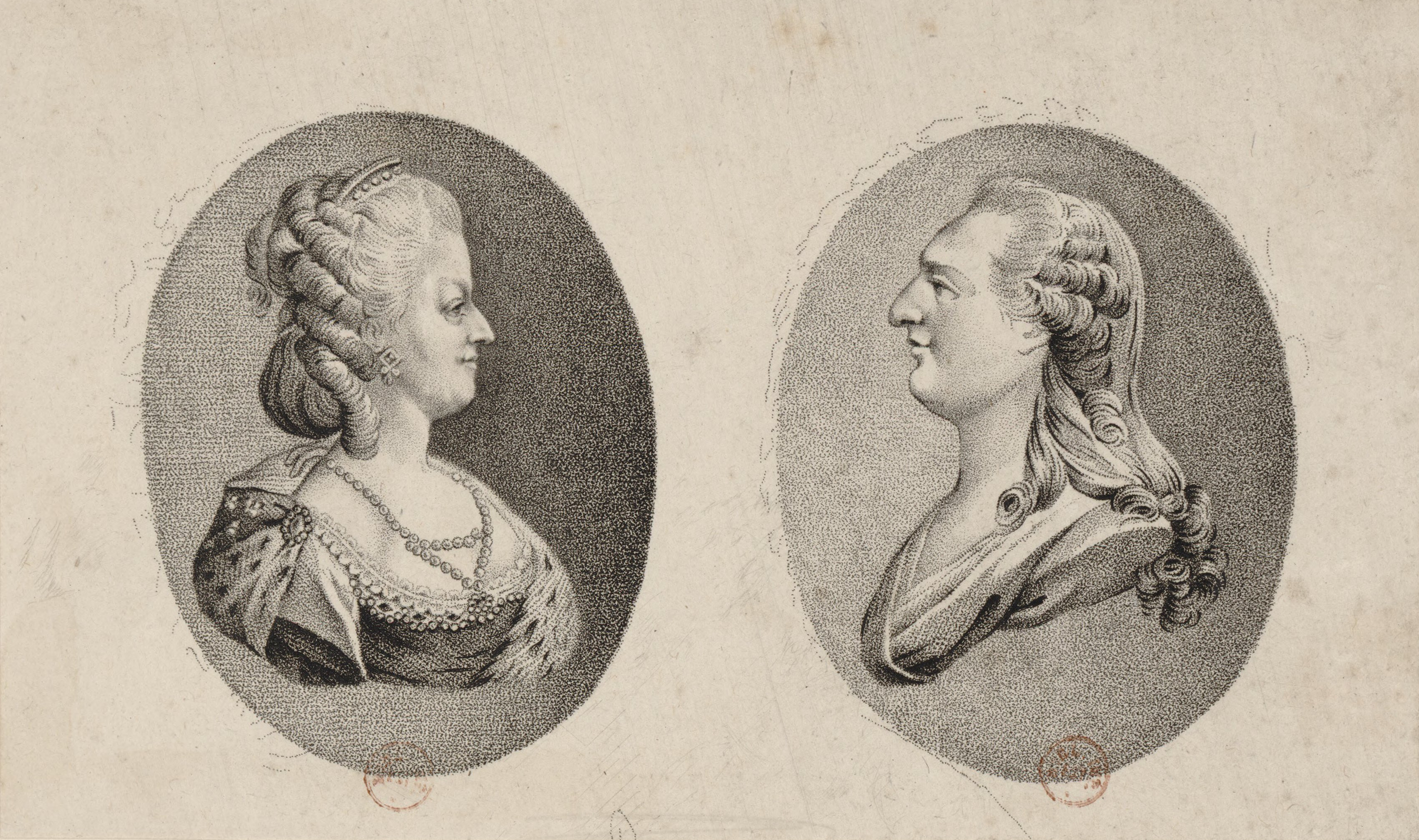 Engraved portraits of Marie Antoinette and Louis XVI of France